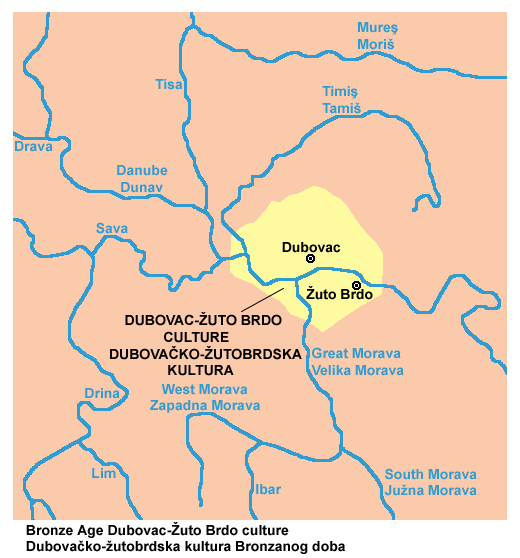 Bronze Age Dubovac-Žuto Brdo culture.